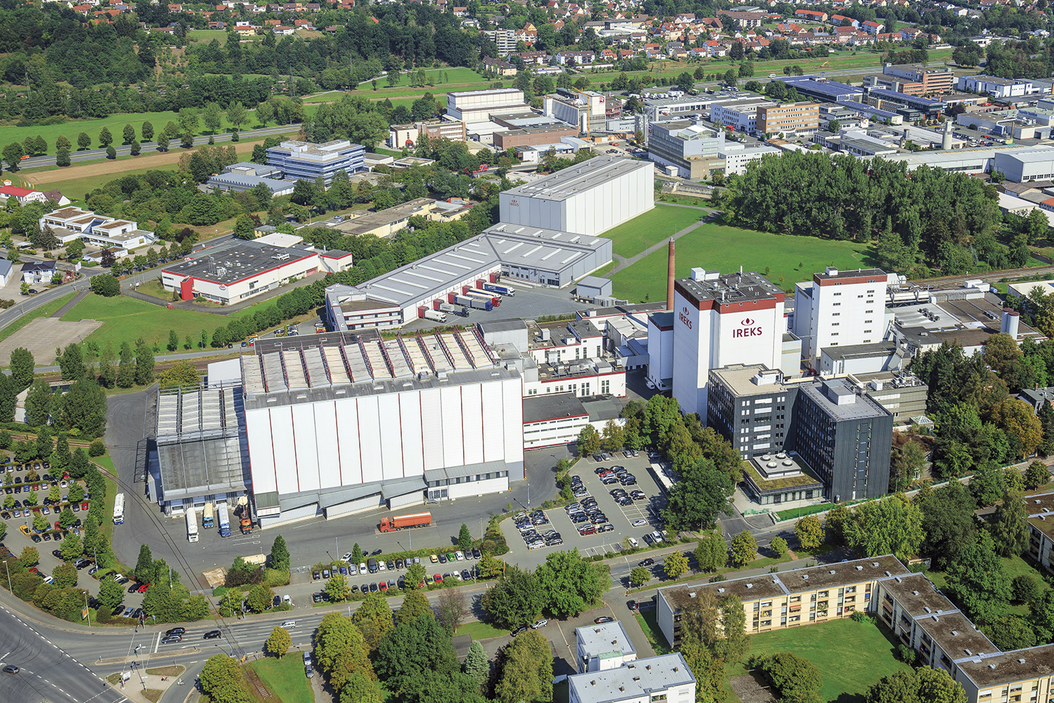 Headquarters of the IREKS Group in Kulmbach (picture from the year 2015)